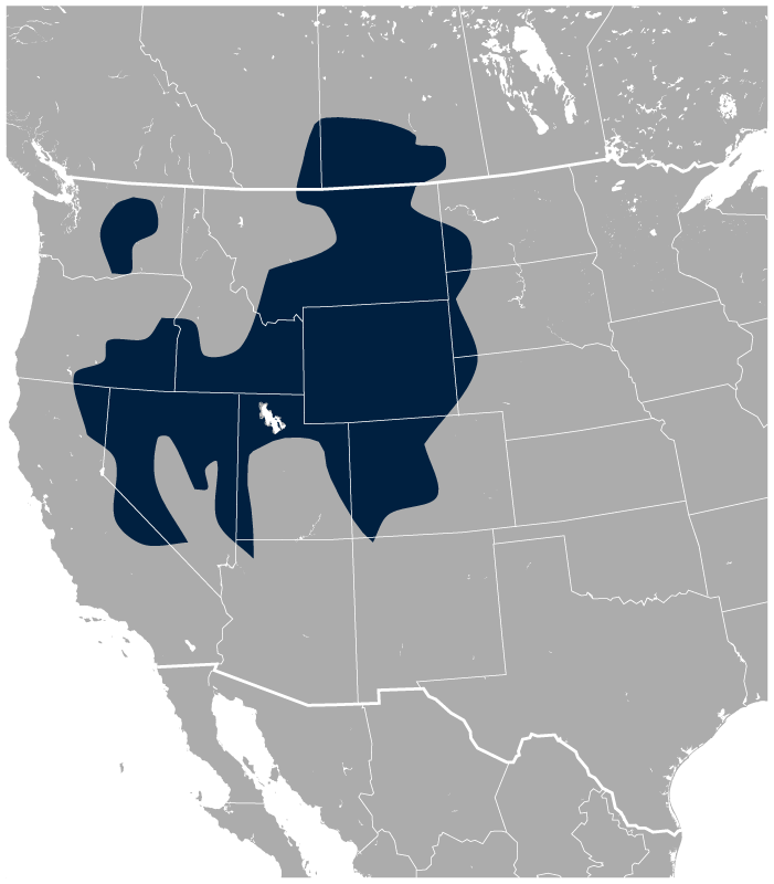 Geographical distribution of the Sage Grouse Centrocercus urophasianus. The map was created using the Generic Mapping Tools, GMT, version 5.1.1.